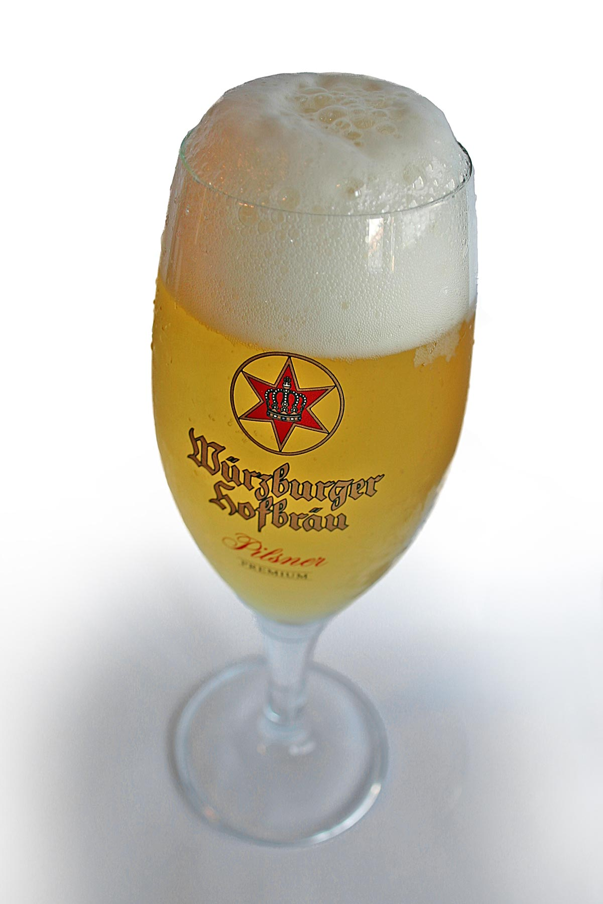 Glass of German "Würzburger Hofbräu" beer, enjoy cold!